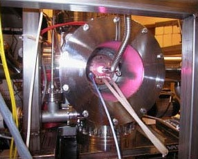 A hydrogen source